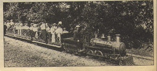 Miniature Train built by Armitage - Herchell Co. of Niagara Falls, New York